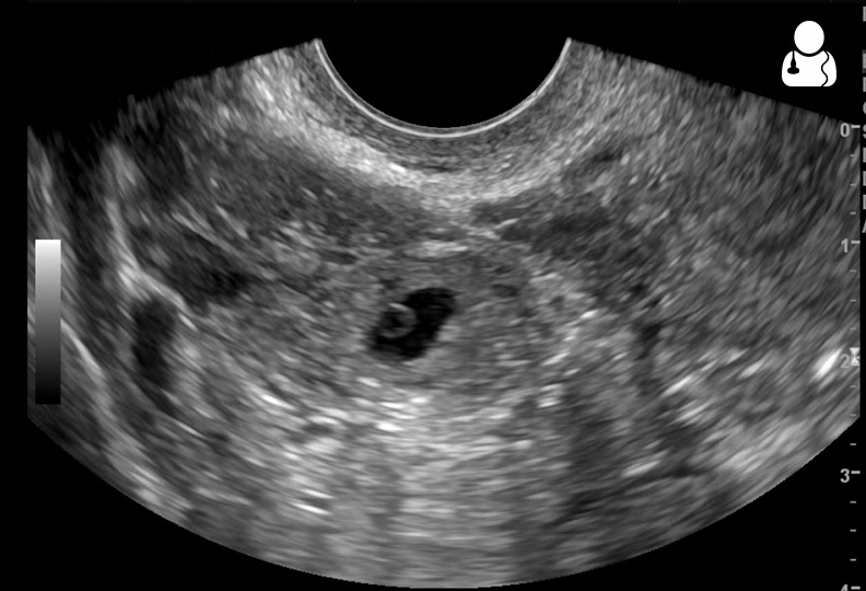 Your resident presents a case to you: this patient is a 24 year old female with a positive pregnancy test at home and right pelvic pain, mild vaginal bleeding. Your resident shows you the following image. What is the diagnosis? File:UOTW 61 - Ultrasound of the Week 1.jpg